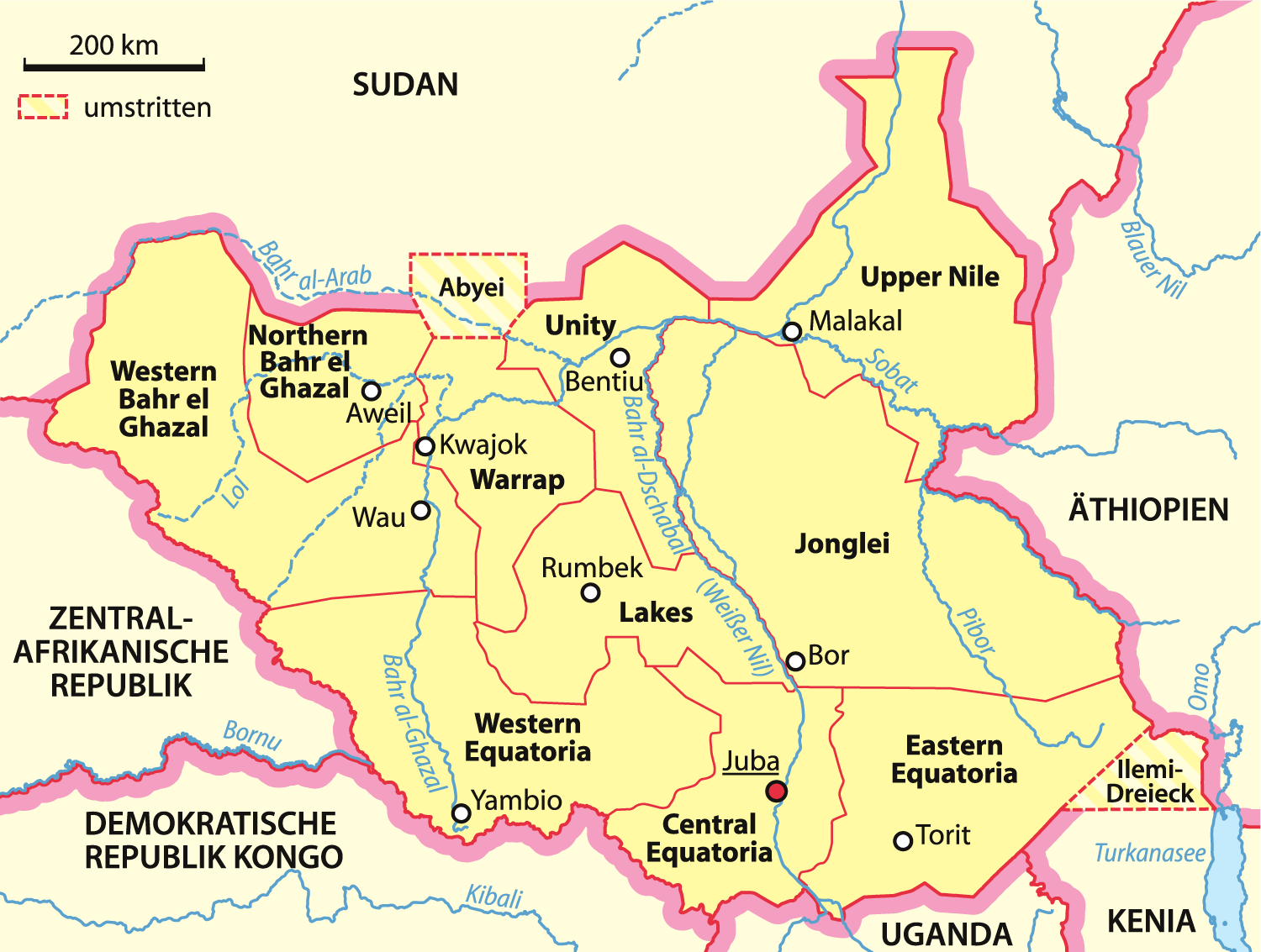 Map of the states of South Sudan